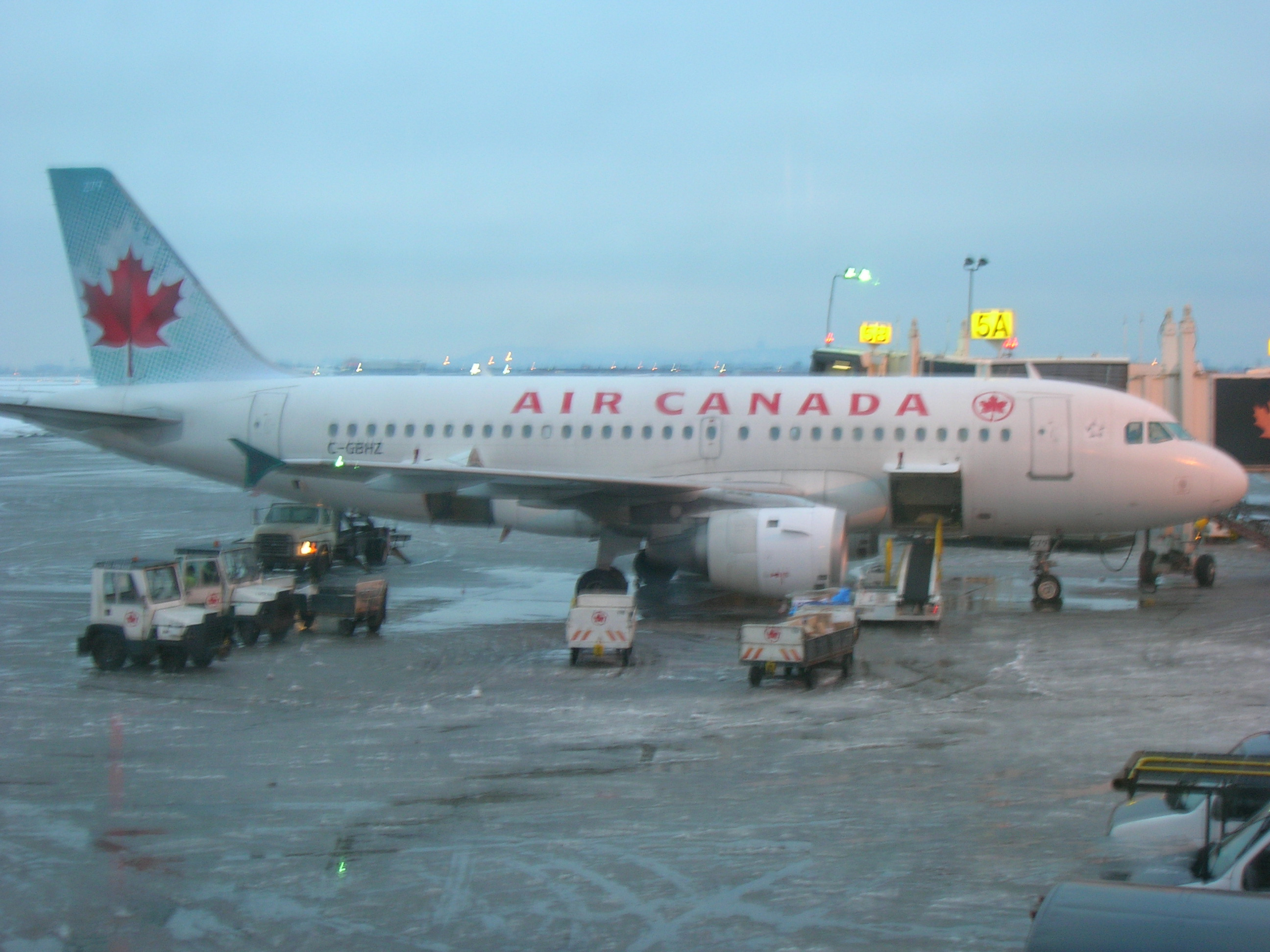 Air Canada Airbus A319 (C-GBHZ). I took this picture during my trip at the Montreal airport.